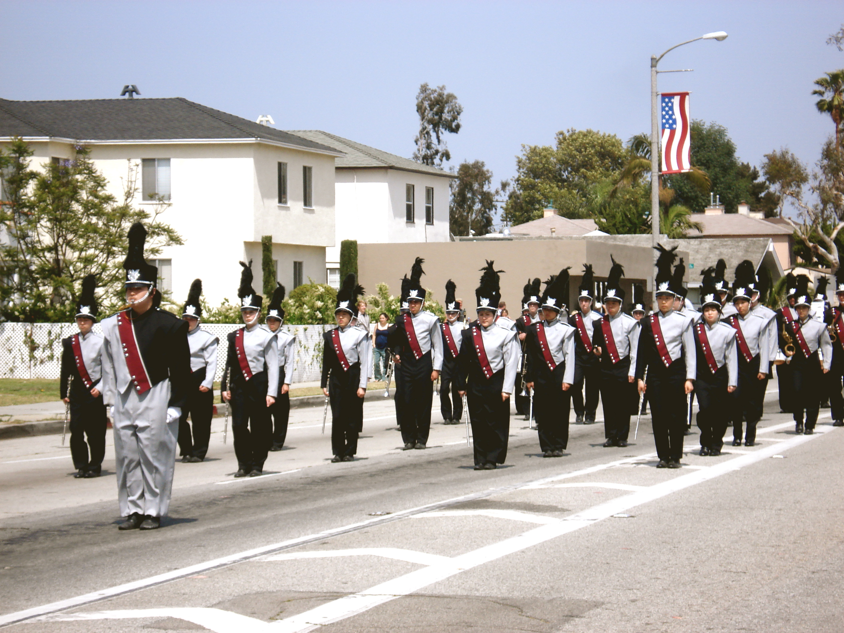 The Torrance High School band marches in the Torrance Armed Forces Day Parade